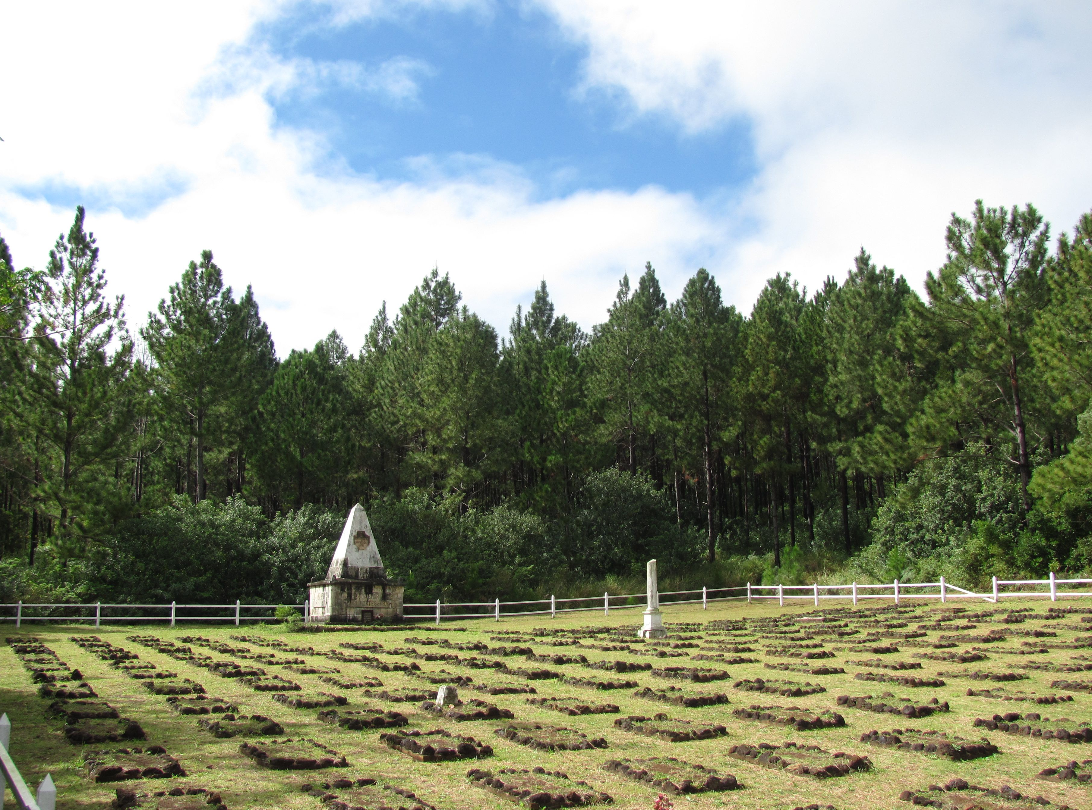 Cemetery "Cimetière des Déportés", Ouro, Ile des Pins, New Caledonia